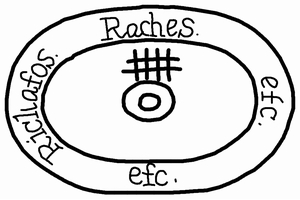 Talisman of Germany to evil eye